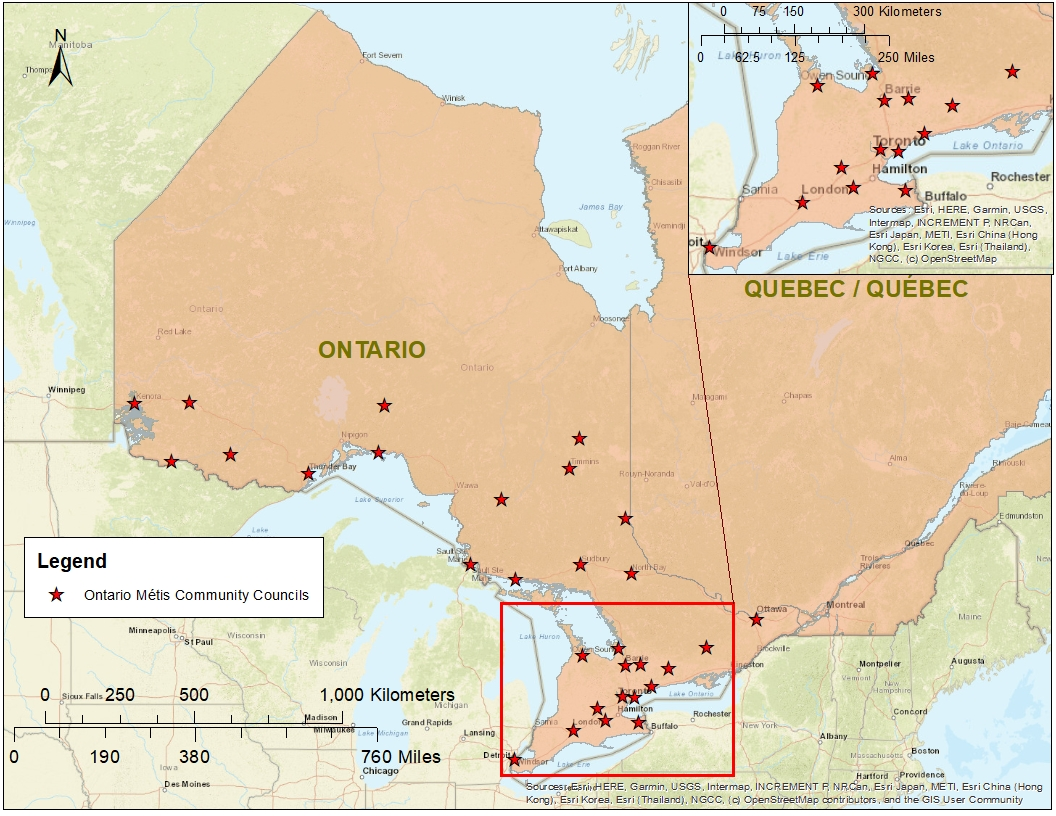 This is a map I created of all the Métis community councils managed by the Métis Nation of Ontario in the province of Ontario in Canada. The Métis Nation of Ontario (MNO) represents all people who claim Métis status and are accepted by the MNO according to their citizenship rules. The point shapefile of the Métis community councils I created in Excel with GPS coordinates from Google maps, the Ontario and Quebec provincial boundaries shapefile are from Statistics Canada, and the basemap is from ArcMap. The map was created in ArcMap.